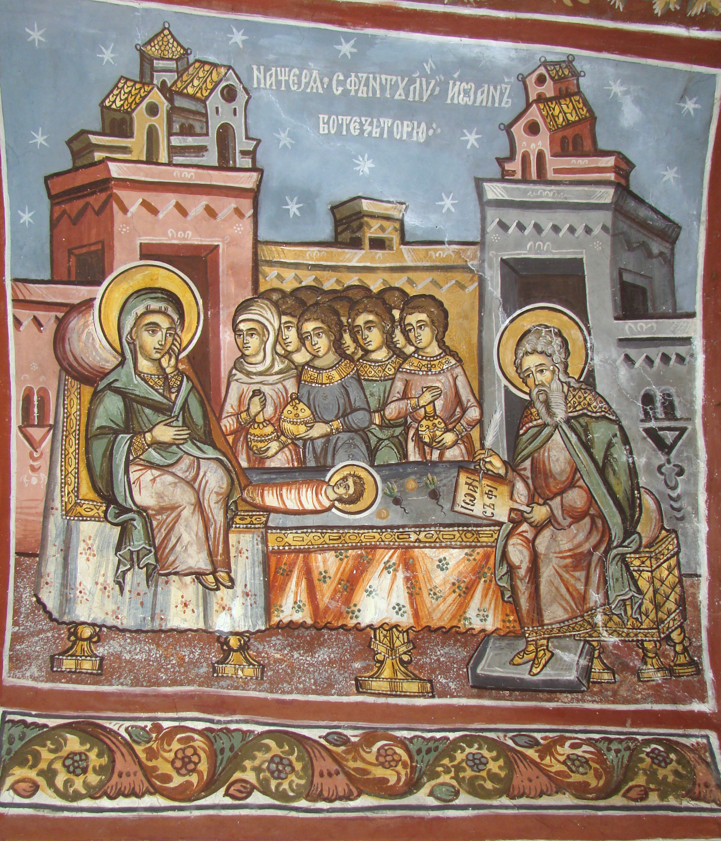 Church of Saint John the Baptist in Olănești, Vâlcea county, Romania